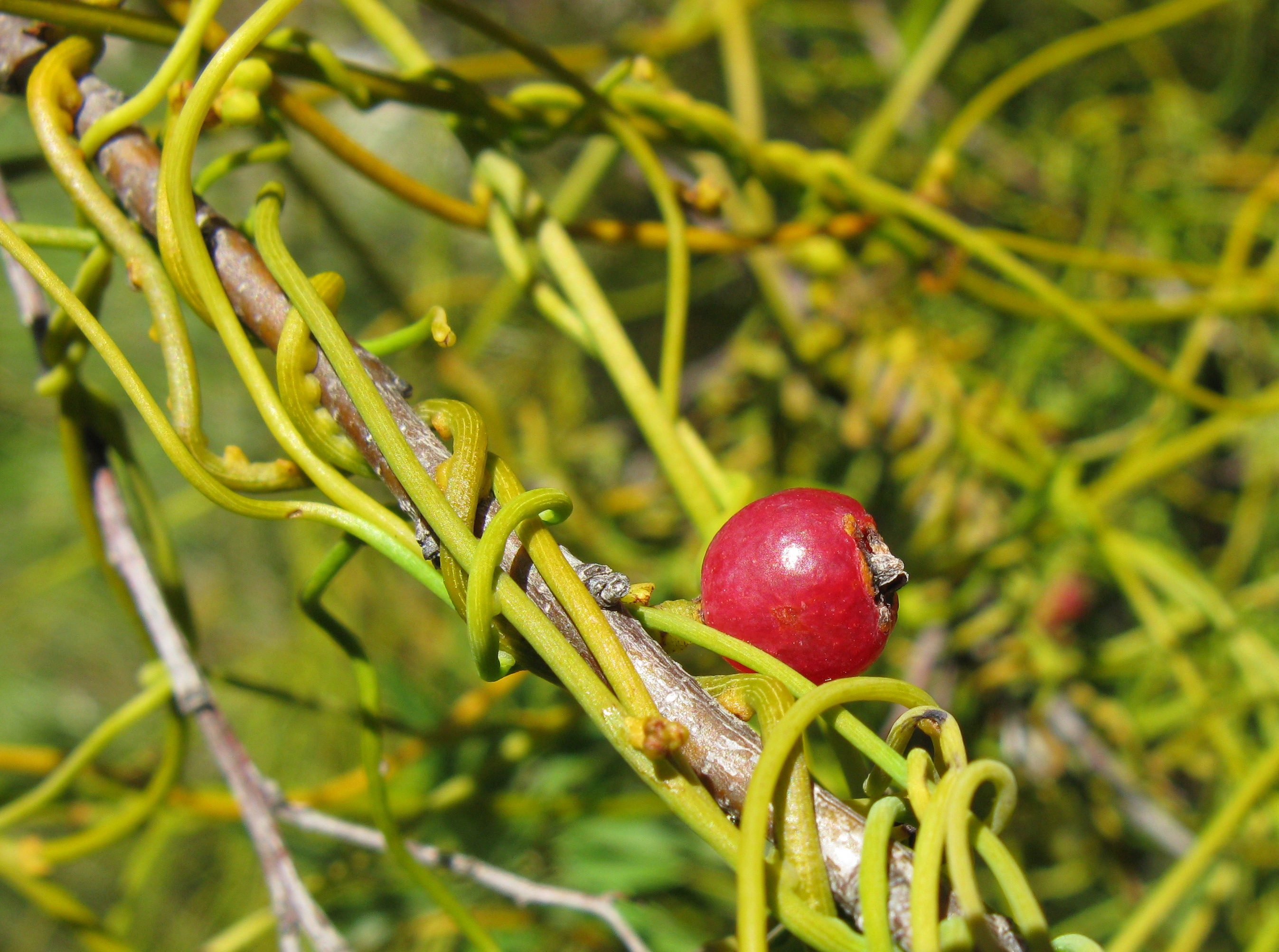 Cassytha ciliolata on Searsia angustifolia. Haustoria visible on host and on its own stems.